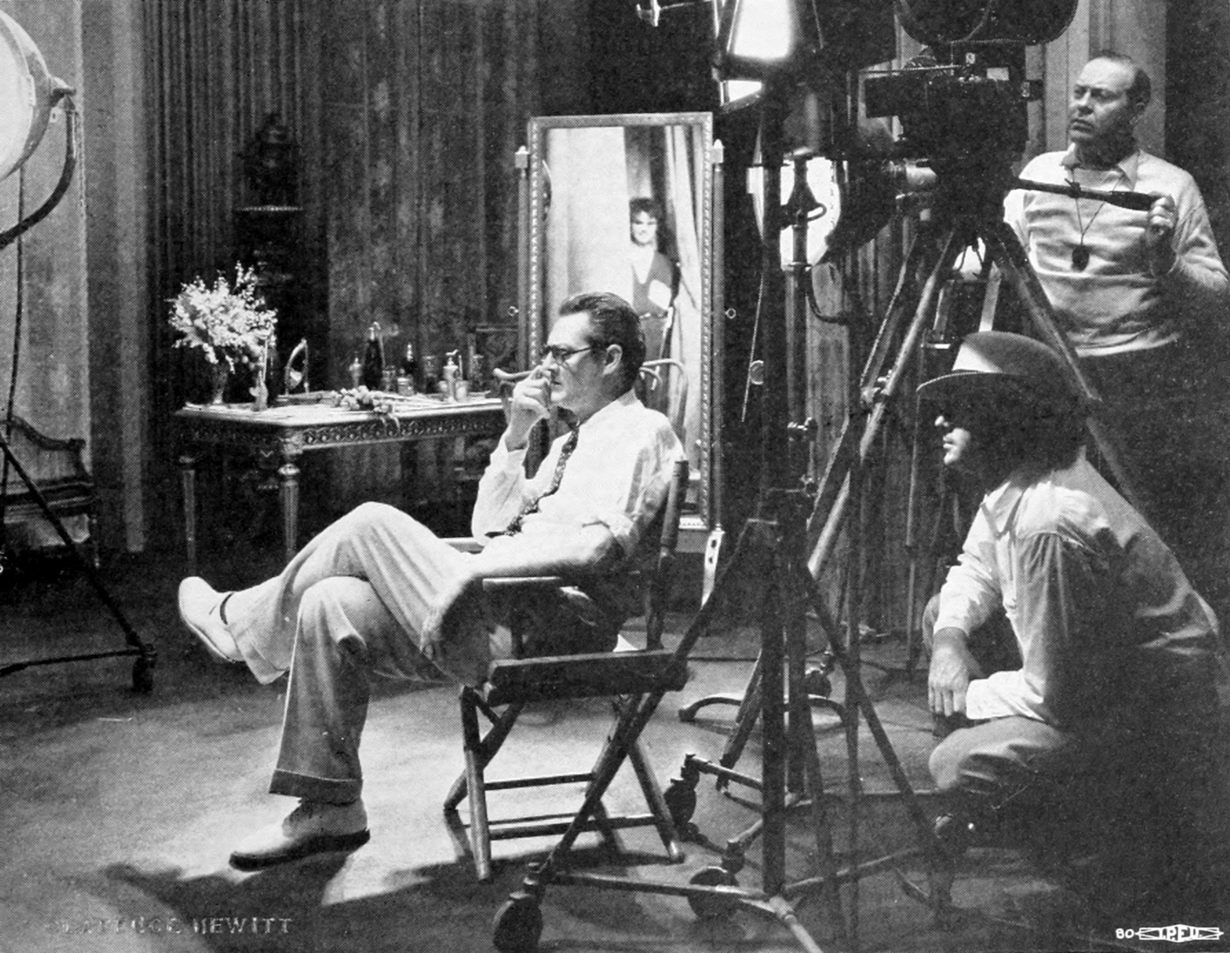 Photograph of Lionel Barrymore directing the 1930 film The Rogue Song Caption reads as follows: Clarence Hewitt shows us this picture of Lionel Barrymore directing Rogue Song. Lawrence Tibbett is seen standing in the doorway, and behind the camera is Percy Hilburn.